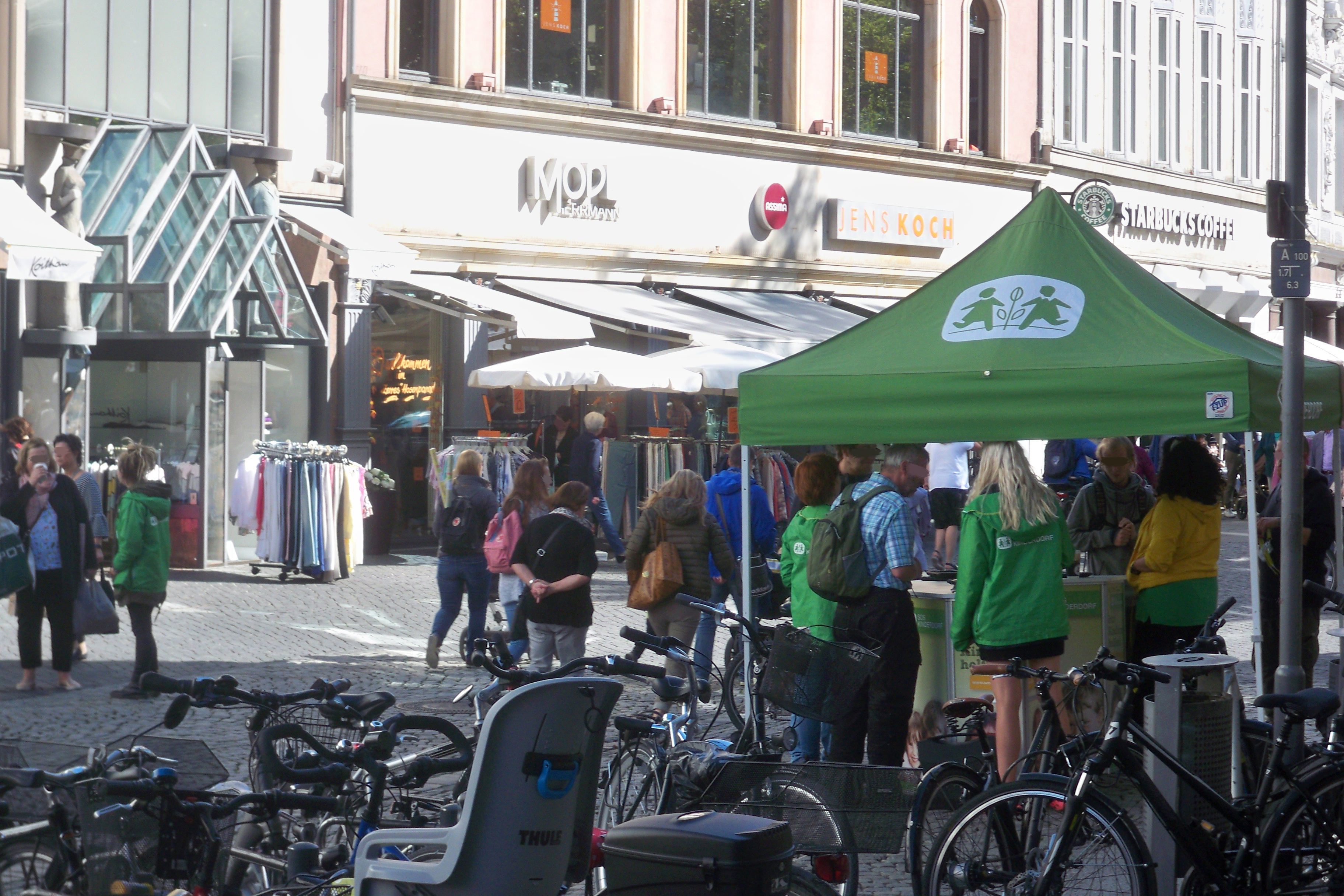 Direct dialogue or Face-to-Face to acquire regular donations for NGOs, Germany